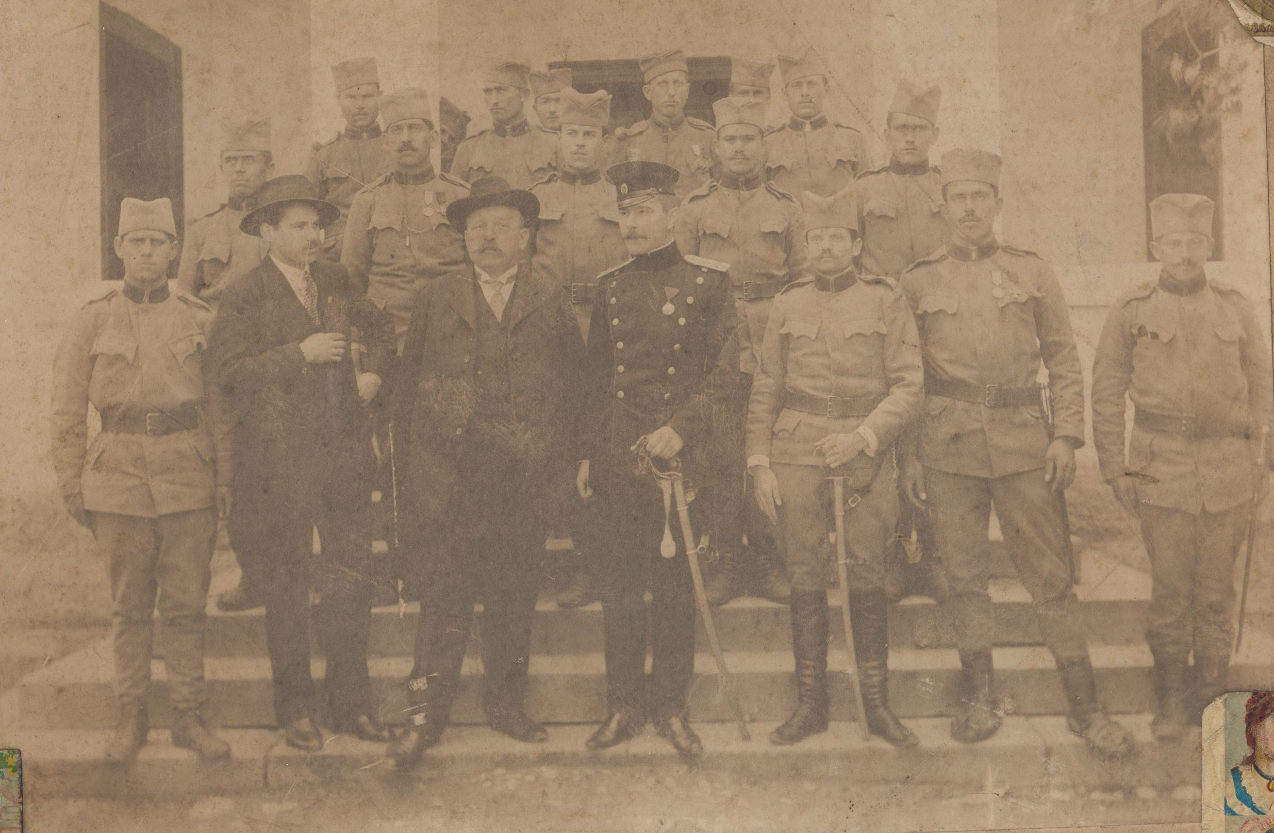 Medics with Karlo Skacel, pharmacist in 1914